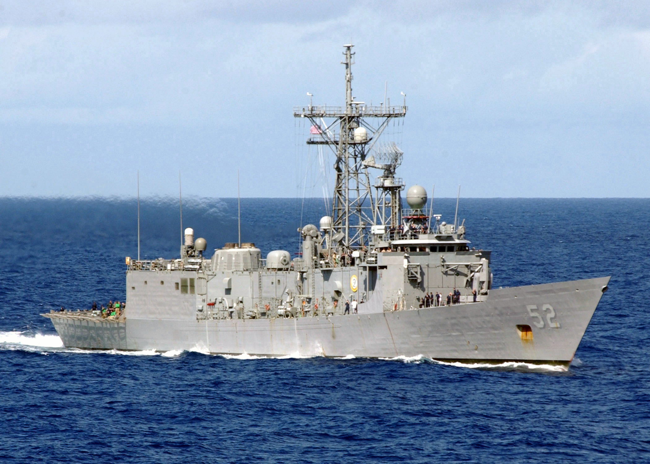 Atlantic Ocean (Jan. 14, 2003) — The guided missile frigate USS Carr (FFG-52) underway while conducting training missions with USS Theodore Roosevelt (CVN-71) battle group.